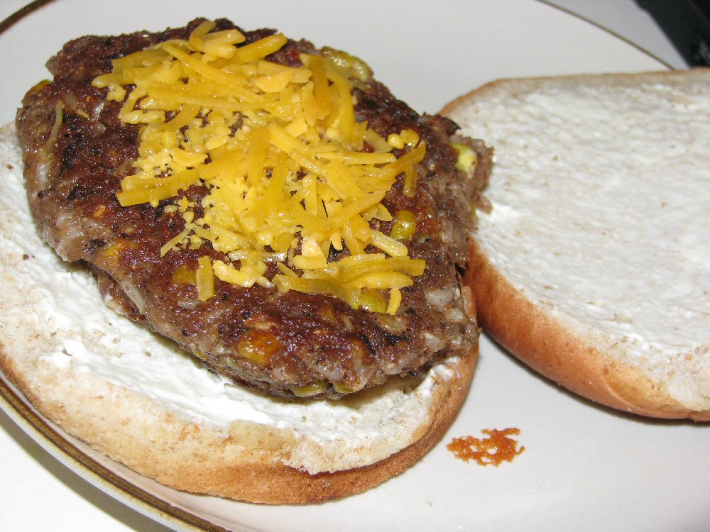 saturday, january 24th 2009. jenny makes a delicious homemade veggie burger. she uses beans, corn, rice, and different spices.